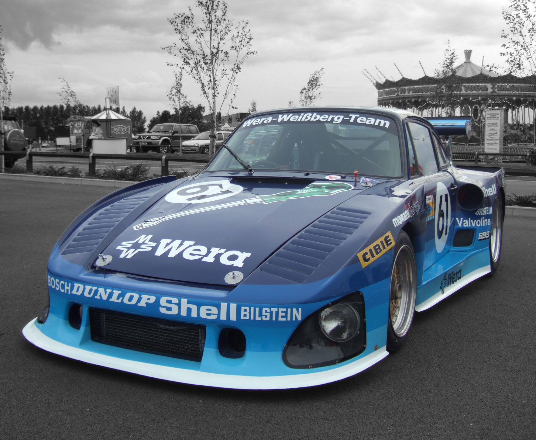 1981 Kremer Porsche 935 K3, as driven by Edgar Dören (D)/Jürgen Lässig (D) in the 1981 Silverstone 6 Hours. Taken at the 2007 Silverstone Classic.